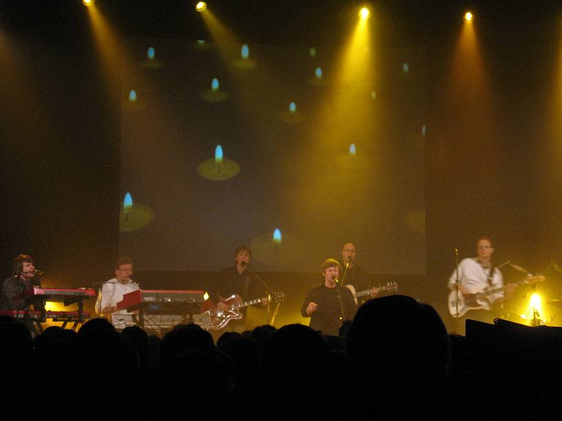 Finnish gospel-group Exit in concert at the church of Rovaniemi. Members (from left): Jari Levy (kb, voc), Matti Puttonen (kb, voc), Make Perttilä (guit, voc), Pekka Simojoki (voc, guit), Jarkko Jouppi (guit, voc), Timo Jouppi (bass, voc)